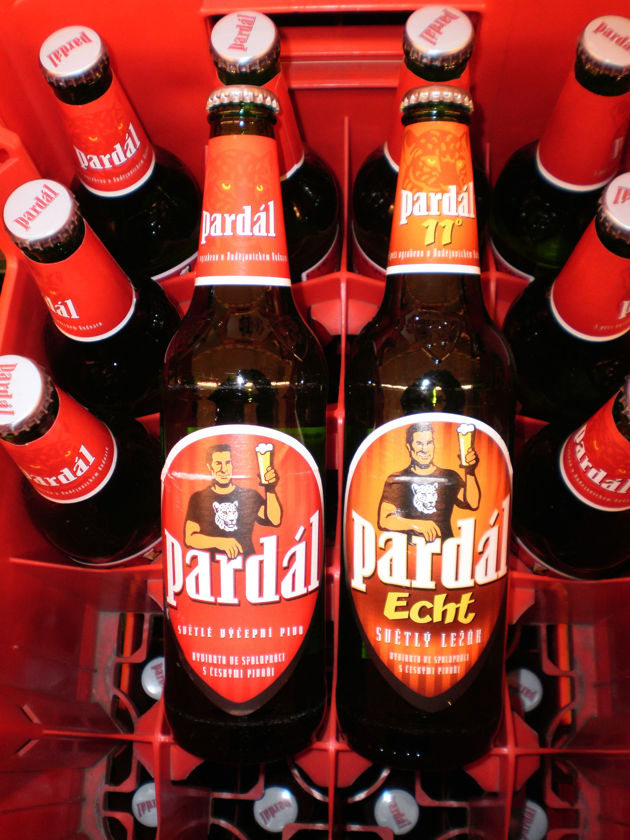 Beer - Czech Republic.